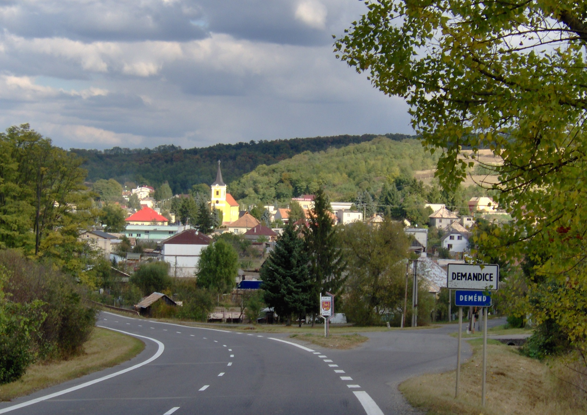 Demandice